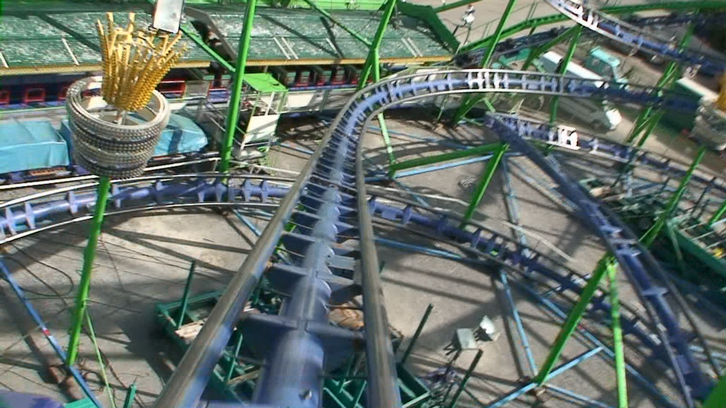 Onrideview of the roller coaster Alpina Bahn